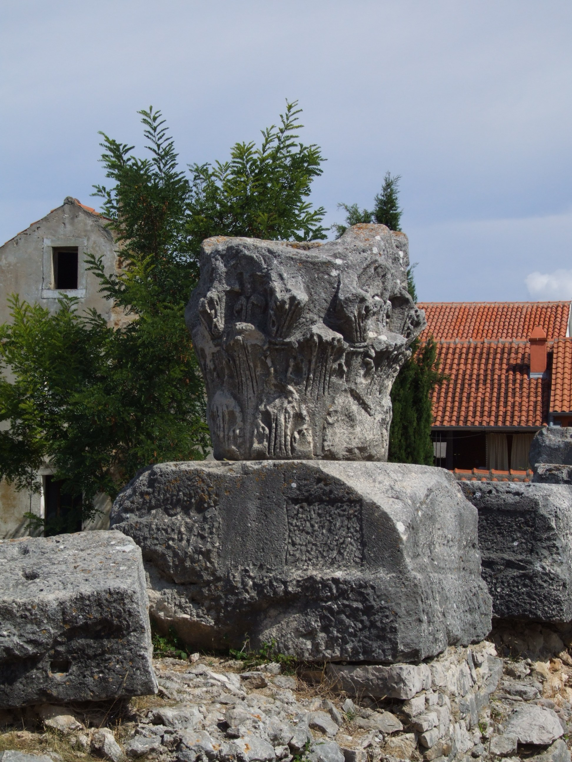 Nin, Croatia - remains of Roman temple (1 cent)